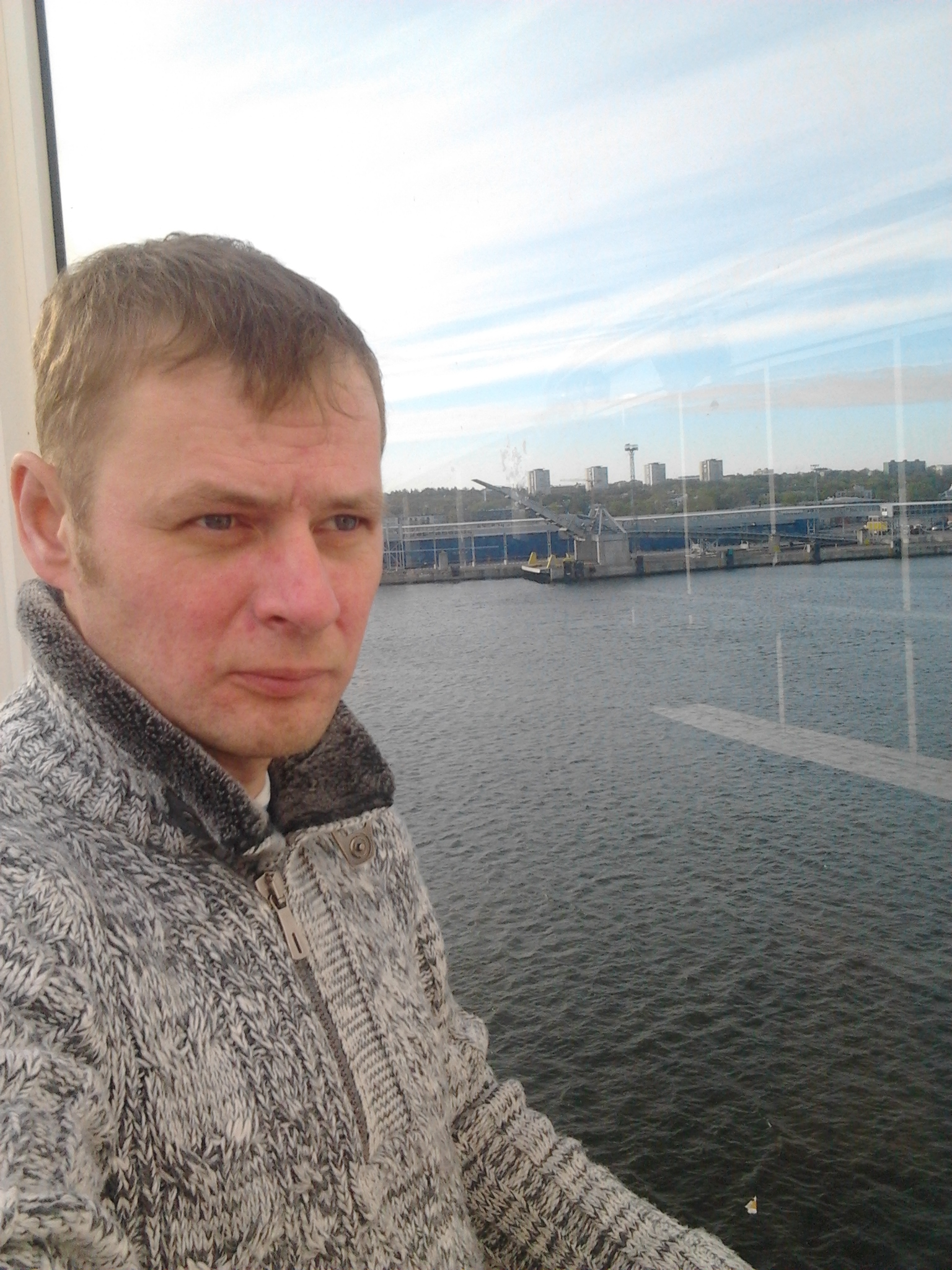 Marko Hiie